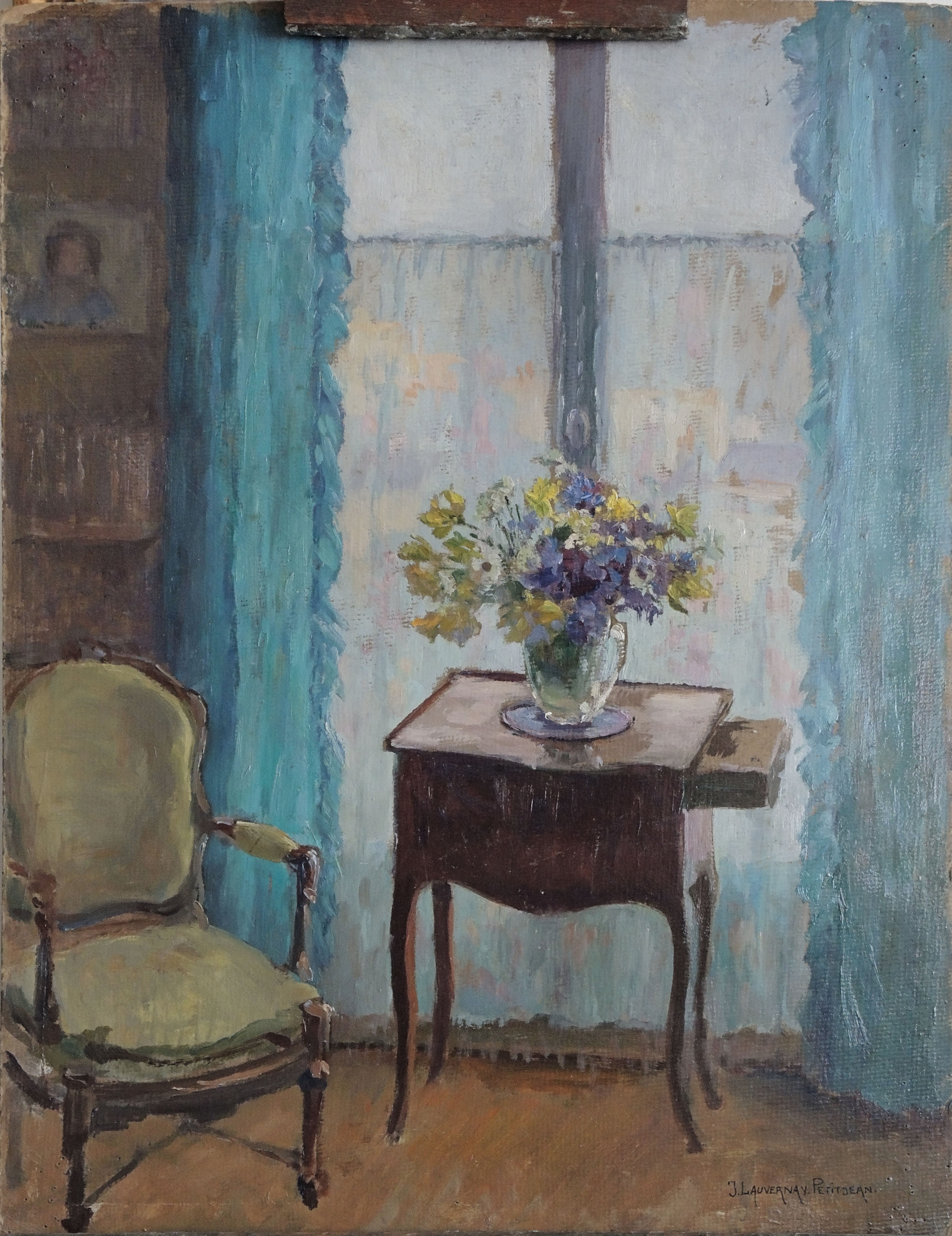 Still life oil painting